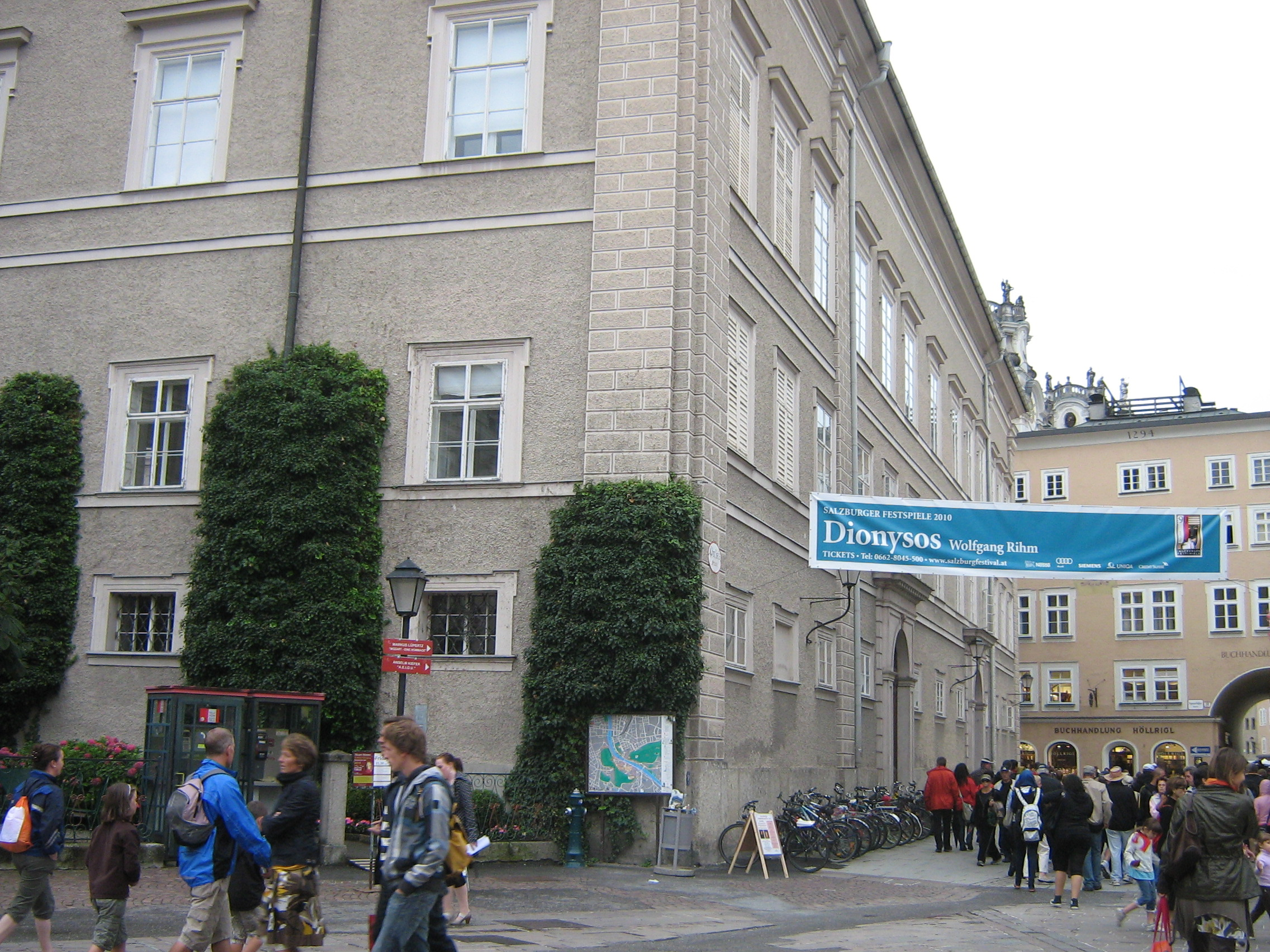 Austria, Salzburg, Residenzplatz